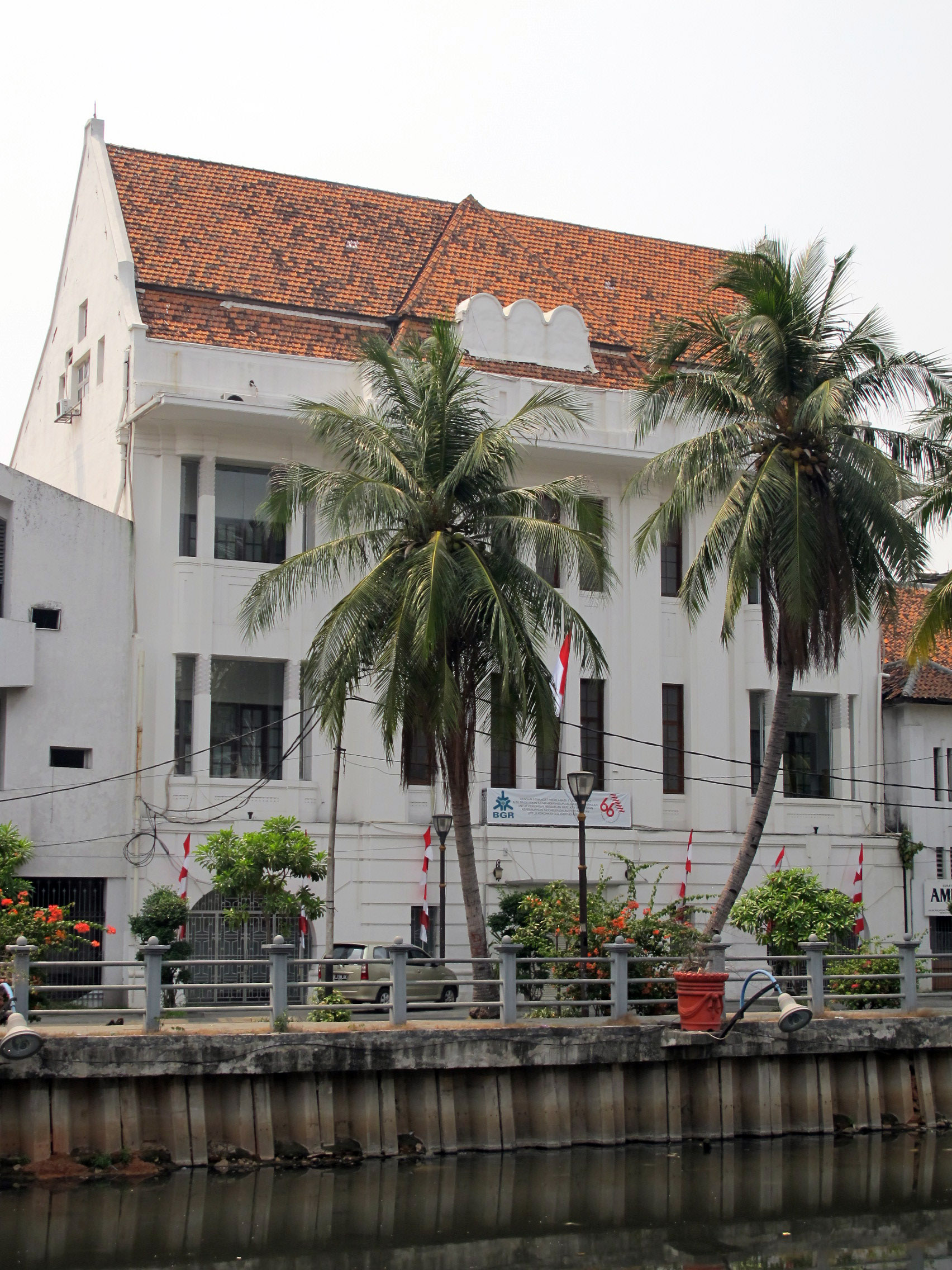 Bhanda Graha Reksa Office in Kota, Jakarta, Indonesia